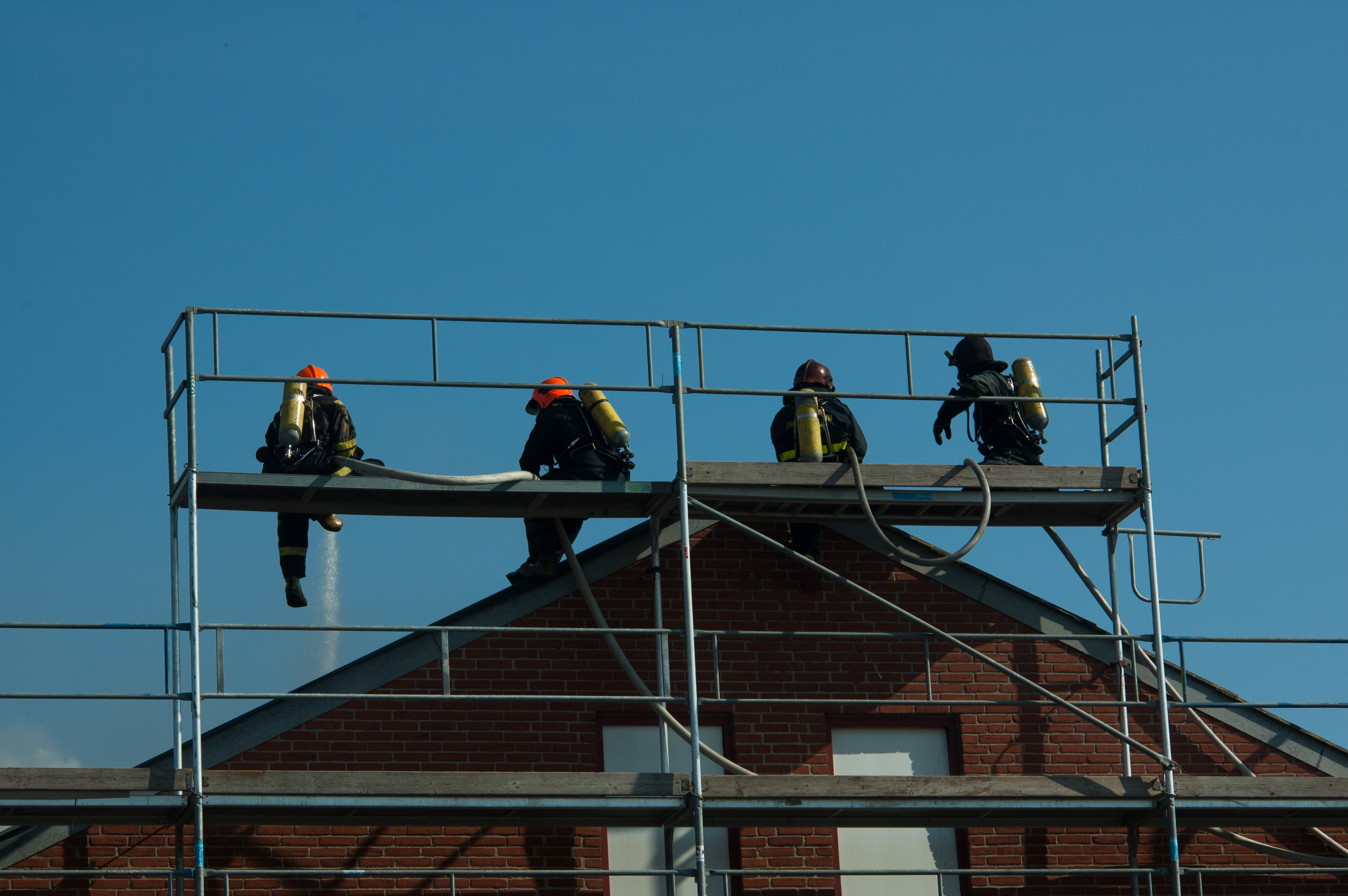 Firefighters from Frederikshavn Fire Department, on a scaffold during a fire in a sports arena.